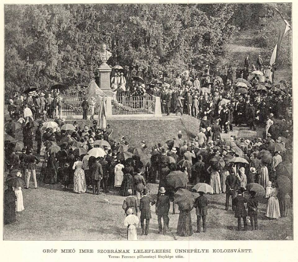 Taken on the 10th of June, 1889. Kolozsvár, Hungary, Central Europe. Inauguration of the statue of Gróf Mikó Imre. Sculptorː Vay Miklós.